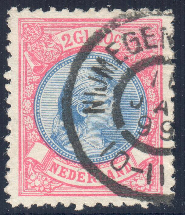 The Netherlands Wilhelmina 2G50c used, black large circular 'NIJMEGEN (STATION?)'.